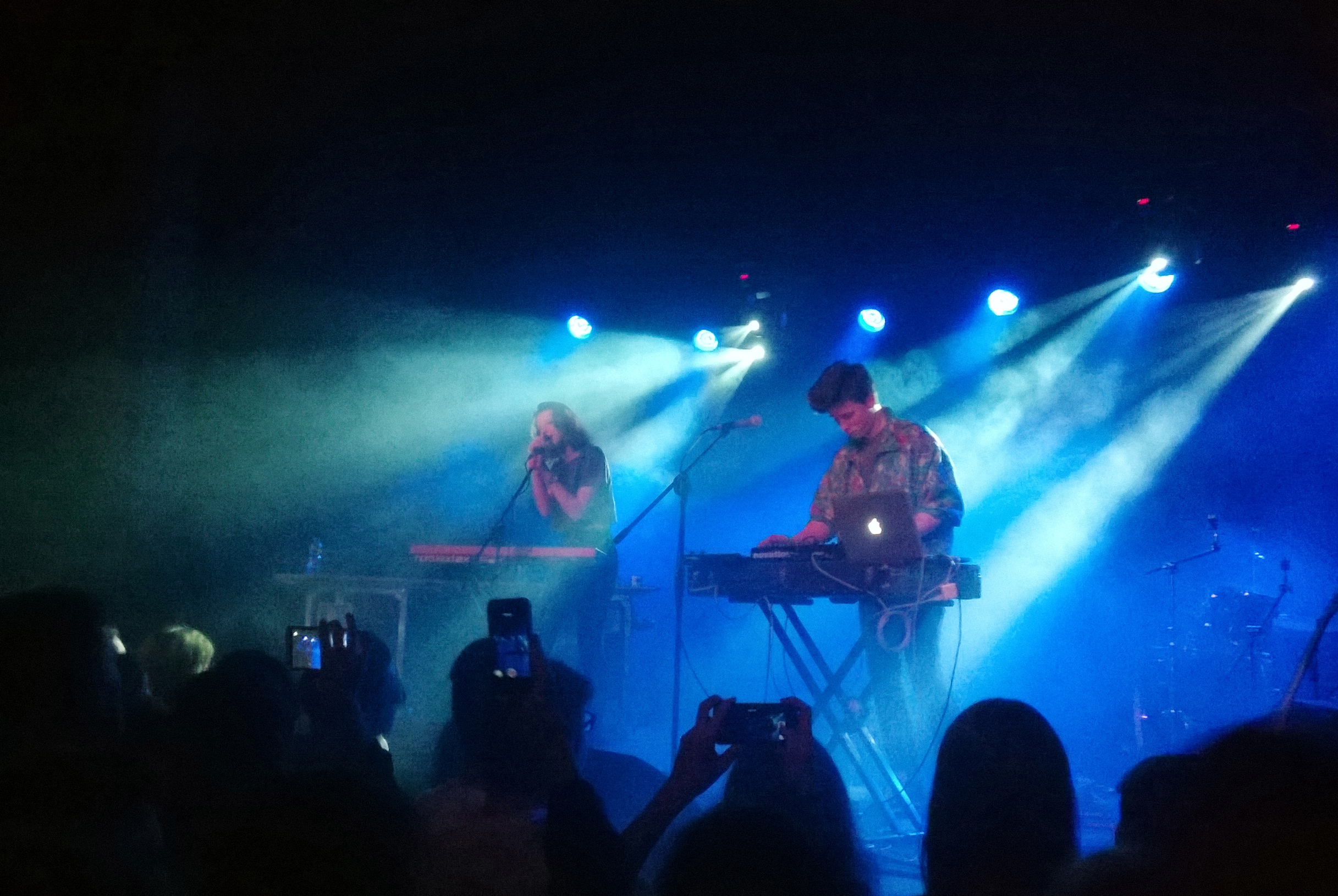 The Dumplings giving a gig at the "Rotunda" Center, Kraków.